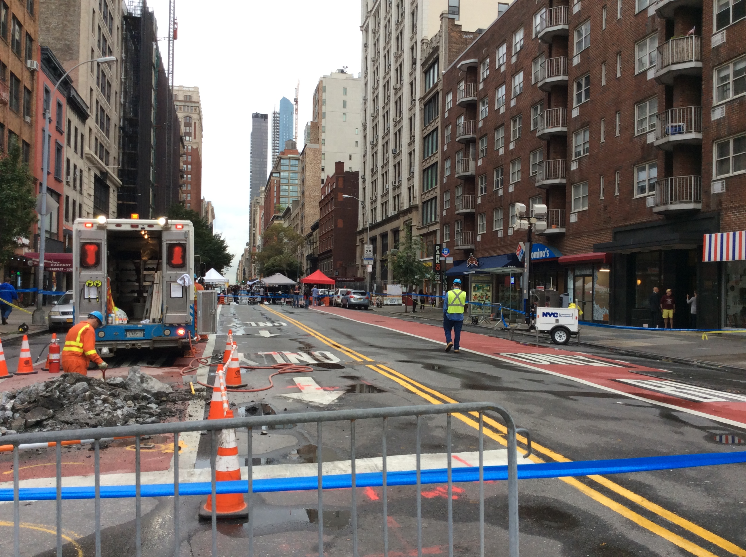 The investigation of the 2016 Manhattan bombing, as seen from 23rd Street and Seventh Avenue